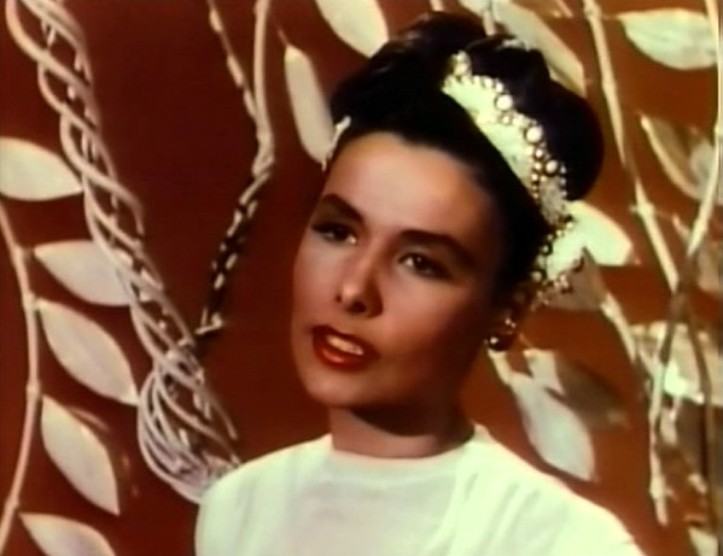 Cropped screenshot of Lena Horne from the film Till the Clouds Roll By.